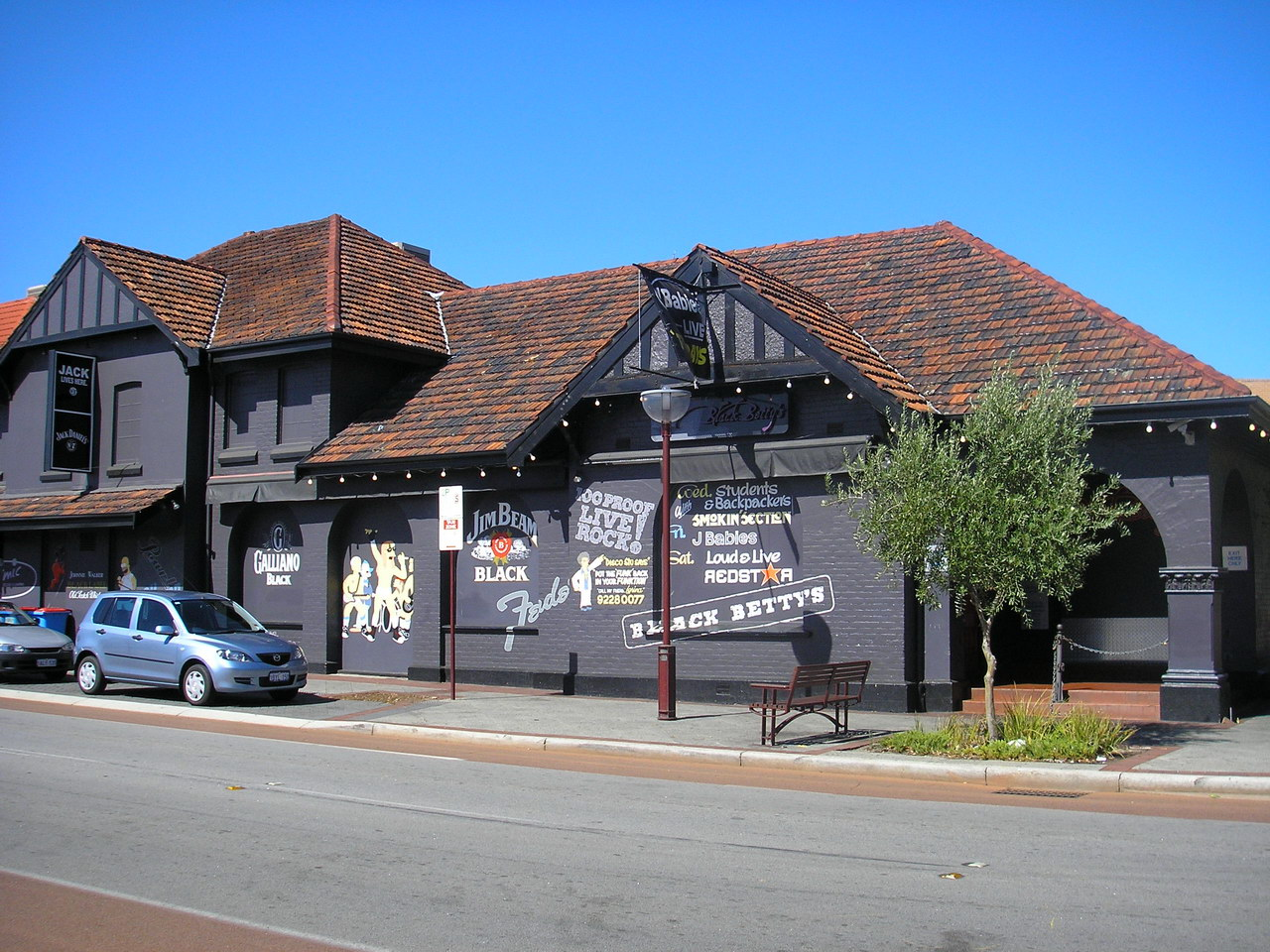 Black Bettys Nightclub in Northbridge, Western Australia.